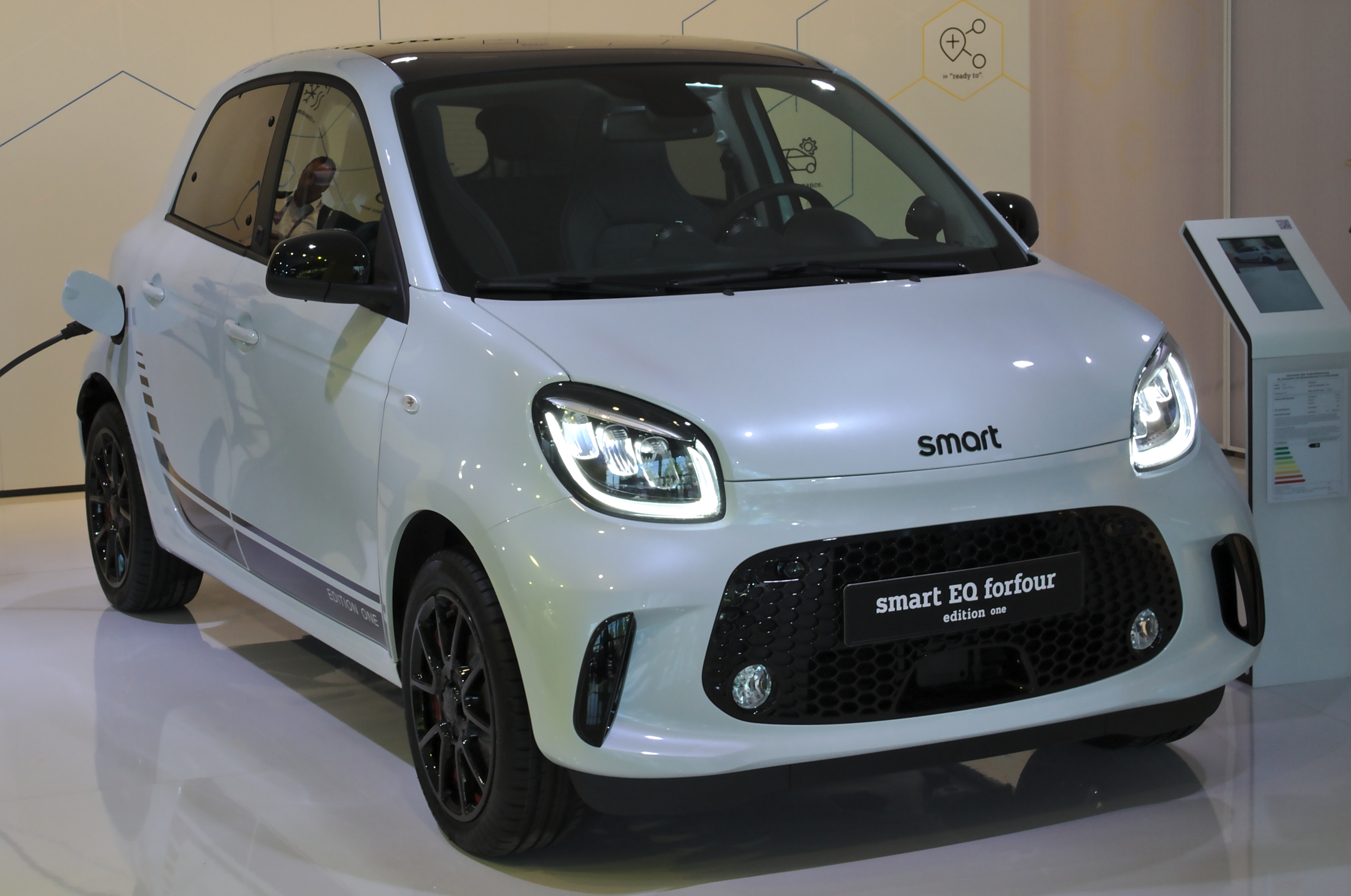 Smart_EQ_forfour at IAA 2019